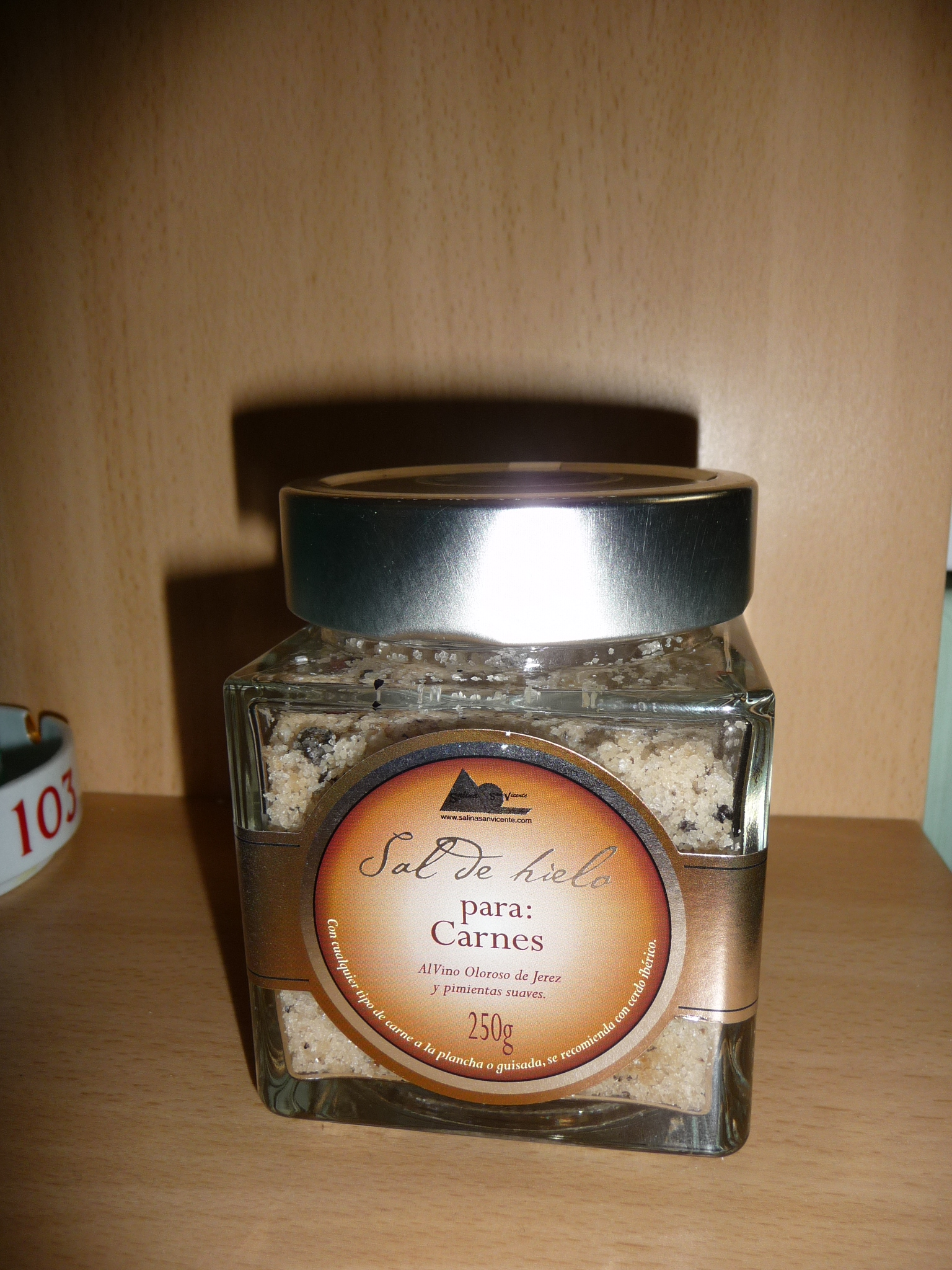 Oloroso sherry flavoured salt (San Fernando, Andalusia)